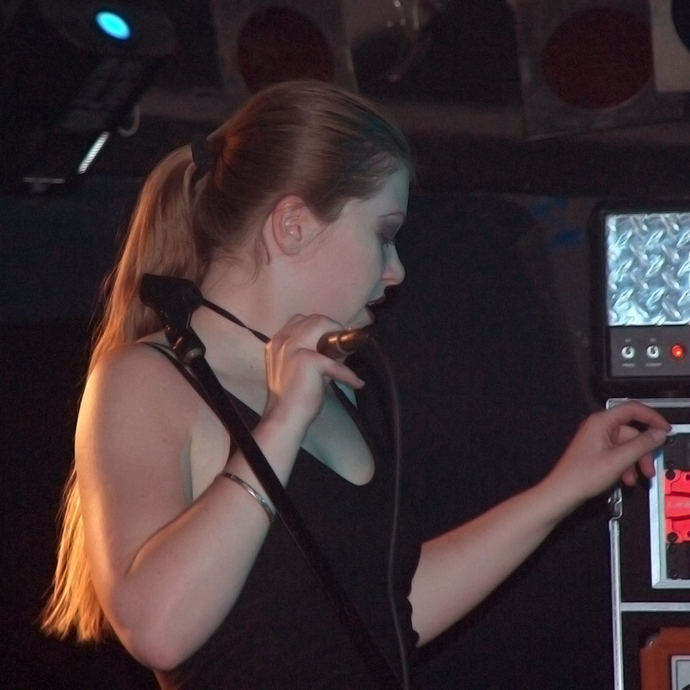 Paulina Maślanka from Delight during Dark Stars Festival Tour 2003 in Proxima club (Warsaw, Poland), November 09, 2003.